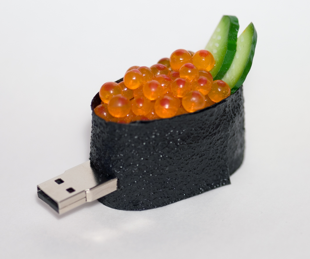 A USB flash drive in the shape of a piece of ikura (salmon roe) sushi. Photo taken by Tokugawapants using Konica-Minolta Maxxum 5d with Minolta AF 100mm Macro lens.